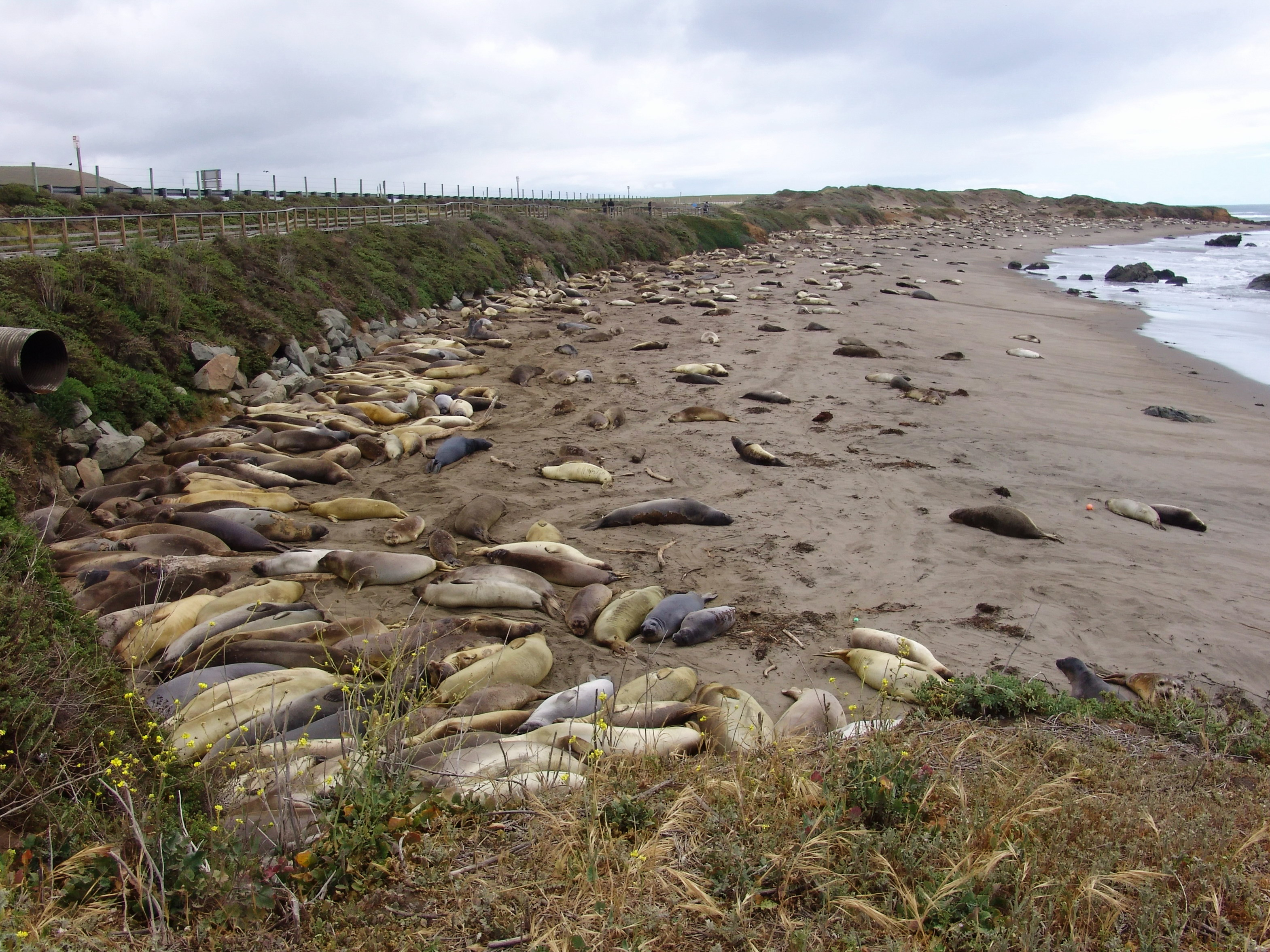 Elephant seals (Mirounga angustirostris) mating on a beach near San Simeon, California, USA. April 21, 2007.